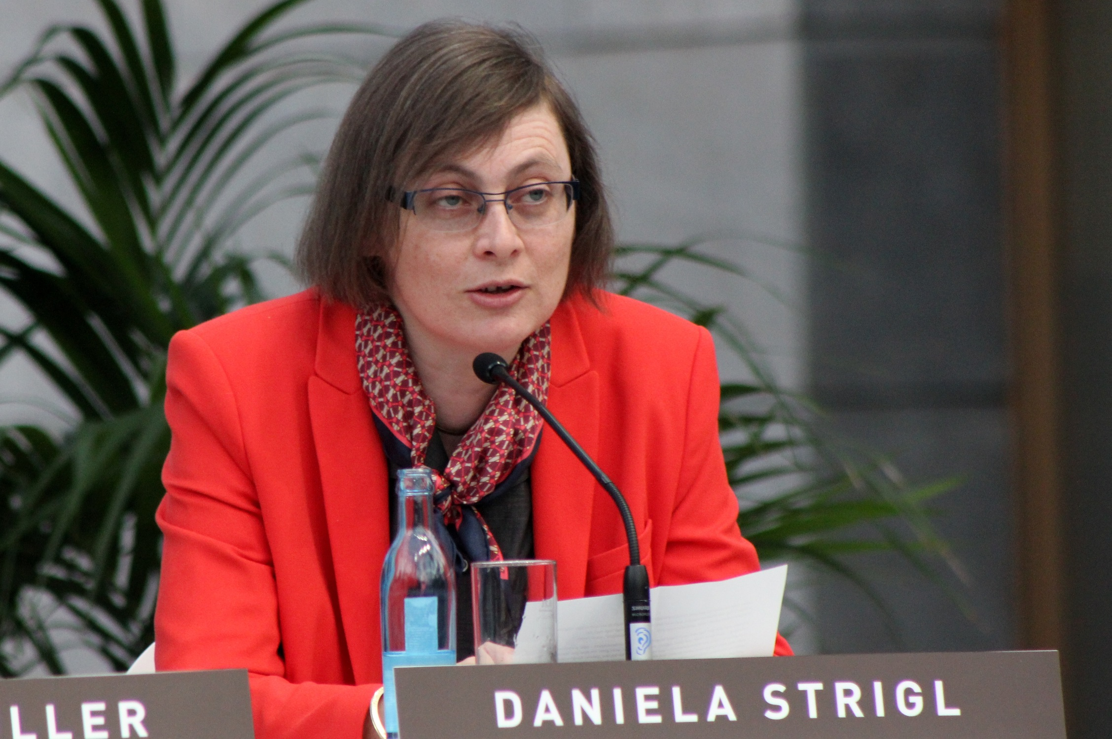 Daniela Strigl, Leipzig Book Fair 2013